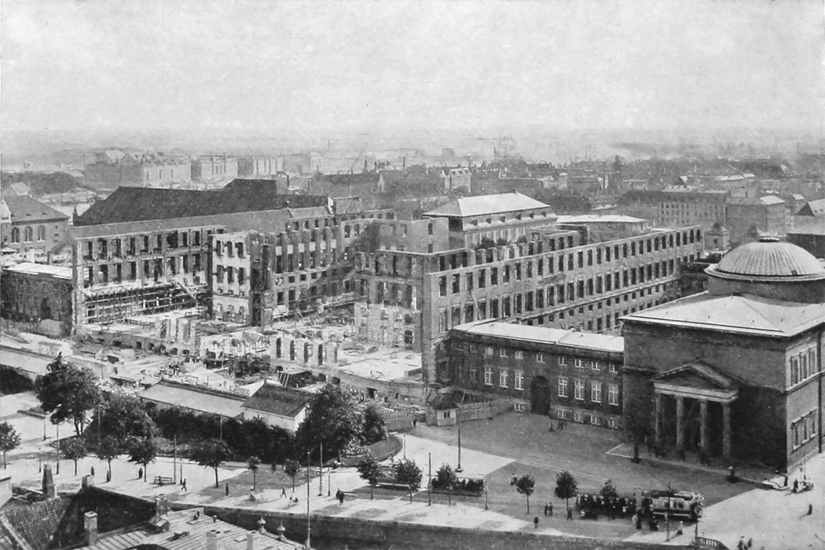 The ruins of the second Christiansborg Palace. Photograph from 1908. The construction of the third Christiansborg was under preparation and the ruins were now partly demolished. The remaining parts shown on the photo were reused in the new construction.